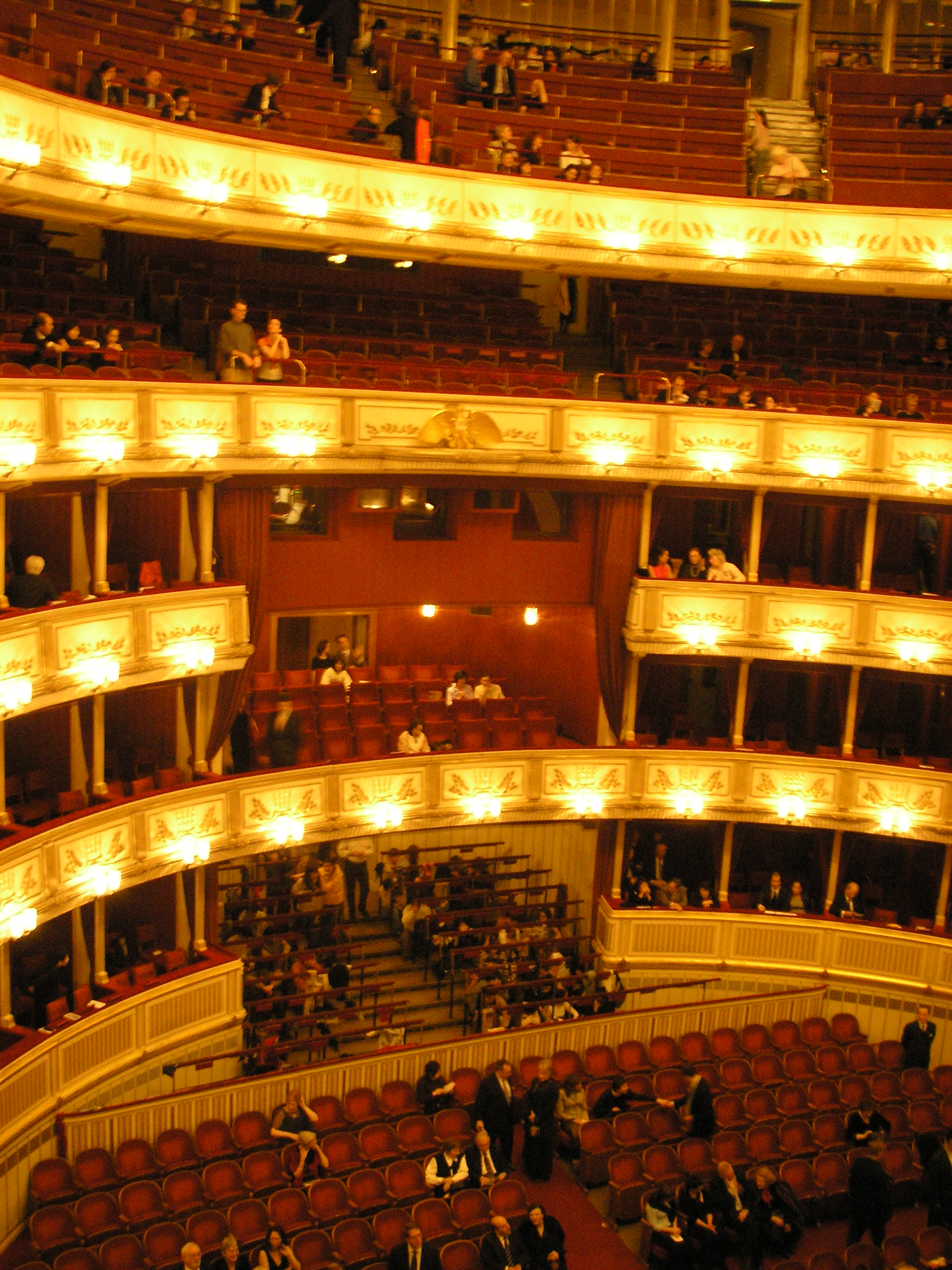 Description: View of the Imperial Box in the Vienna State Opera. Blick von den Rängen auf die Kaiserloge der Wiener Staatsoper. Source: Self-made, I release it into the public domain.